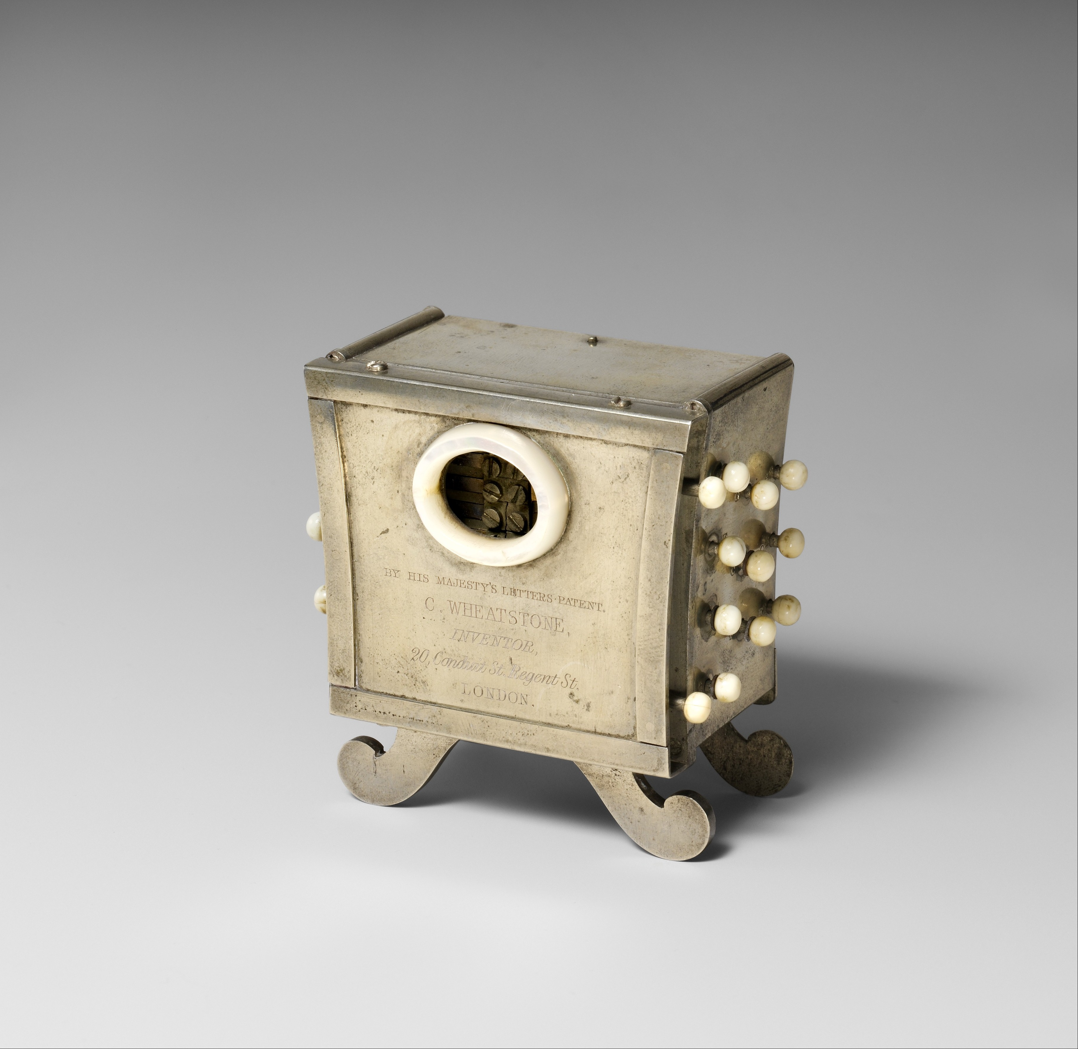 British; Symphonium; Aerophone-Free Reed-mouth organ